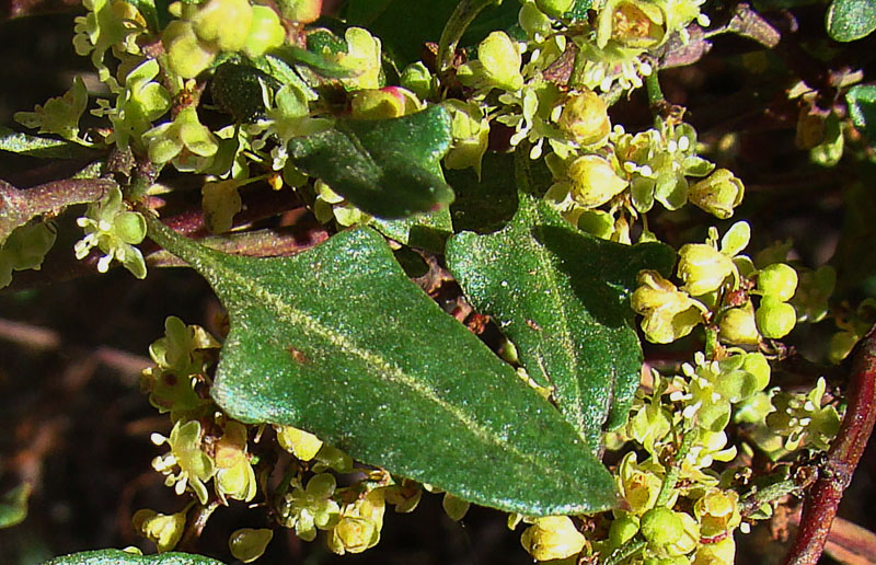 Showing the leaf and minute flowers of the Quilo wirevine. In context at